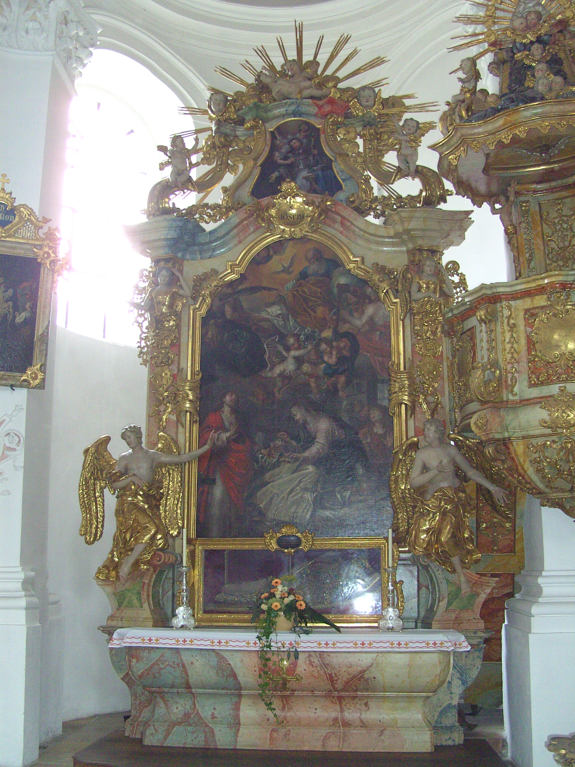 Altar of the Rinchnach Priory